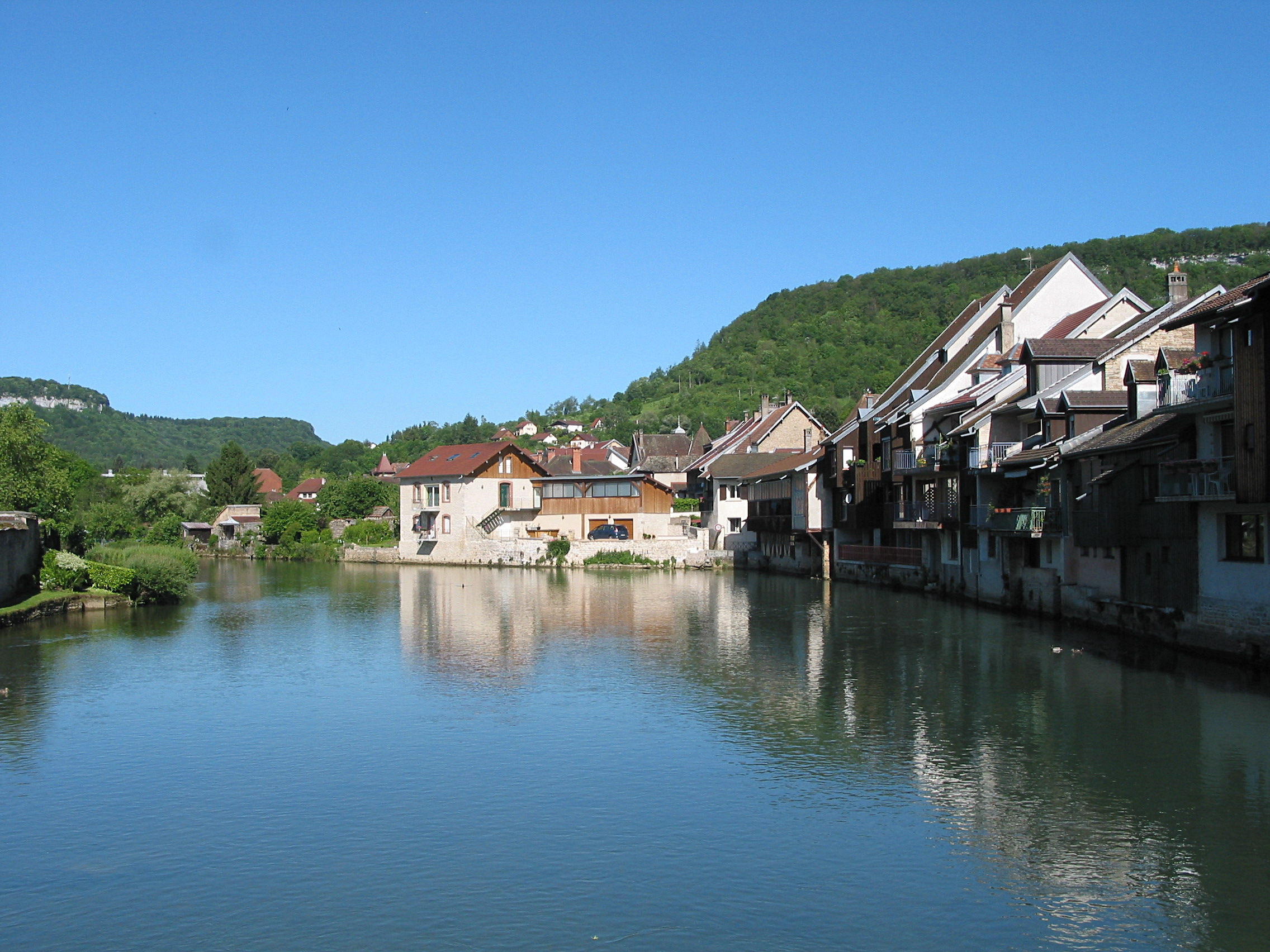 Ornans (Doubs - France), neighborhood along the Loue (river).